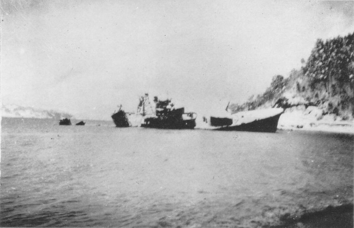 Japanese destroyer Hatsushimo sunk at Miyazu, Kyoto, Japan.